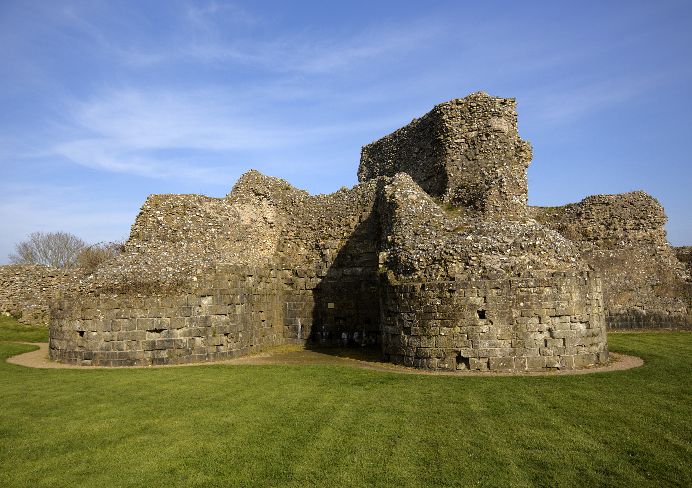 Keep of Pevensey Castle, East Sussex